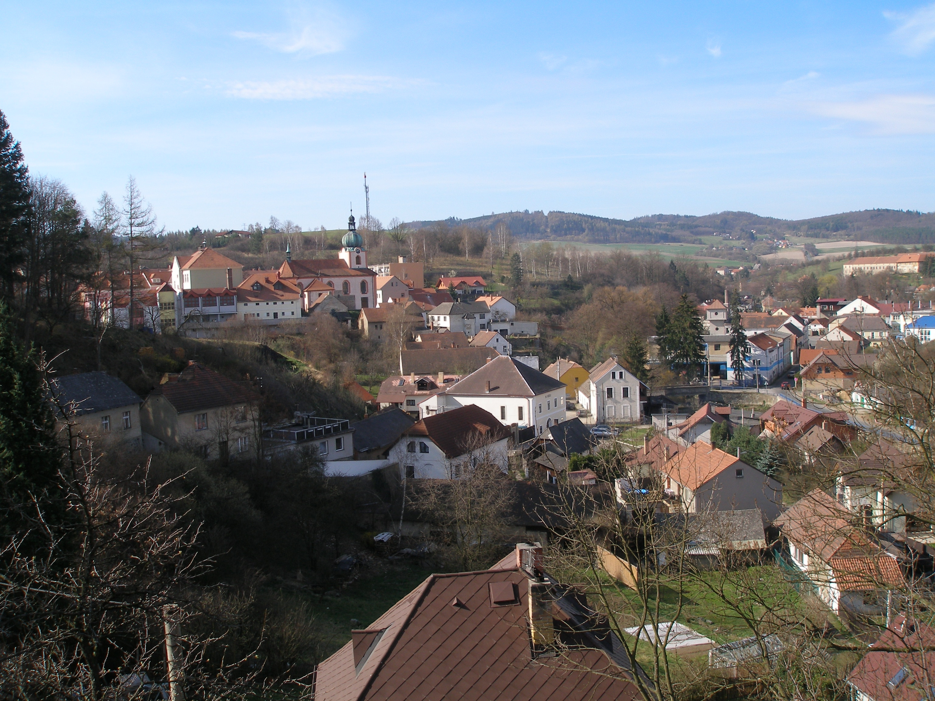 Nový Knín - a view of town centre from NNE.